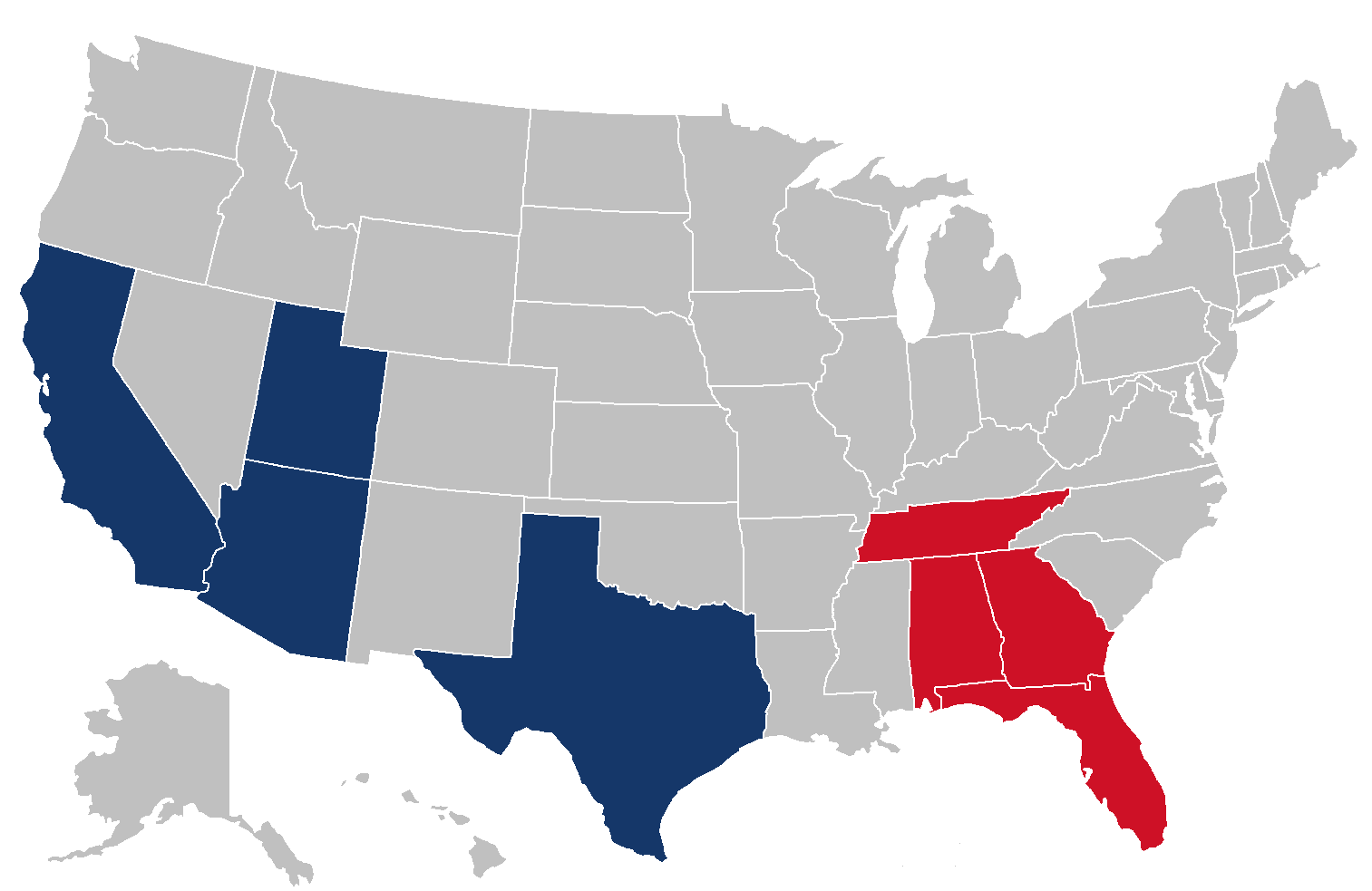 A map showing U.S. states containing a franchise in the Alliance of American Football for the 2019 season Eastern Division Western Division